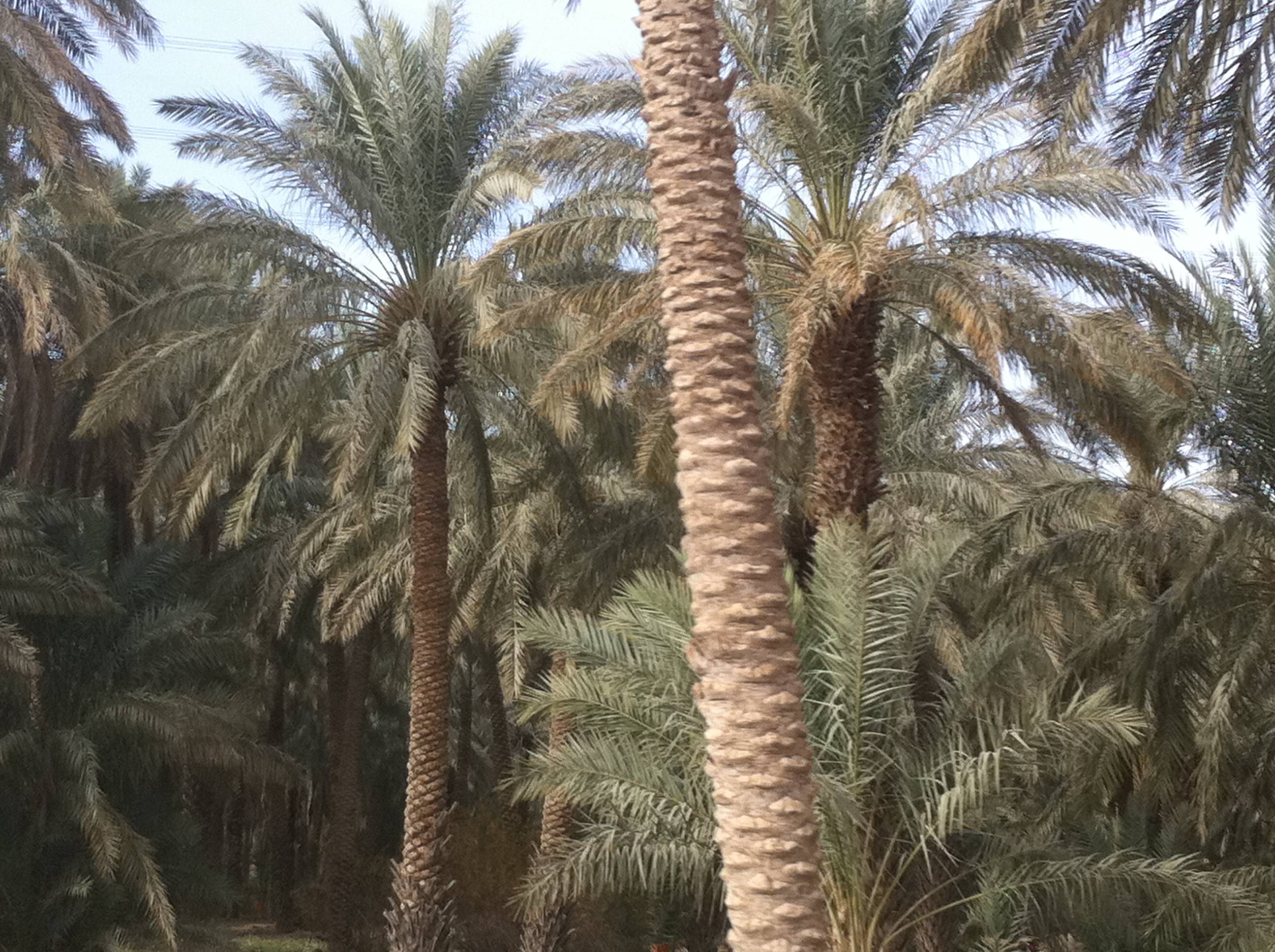 Palm Trees in Saudi Arabia